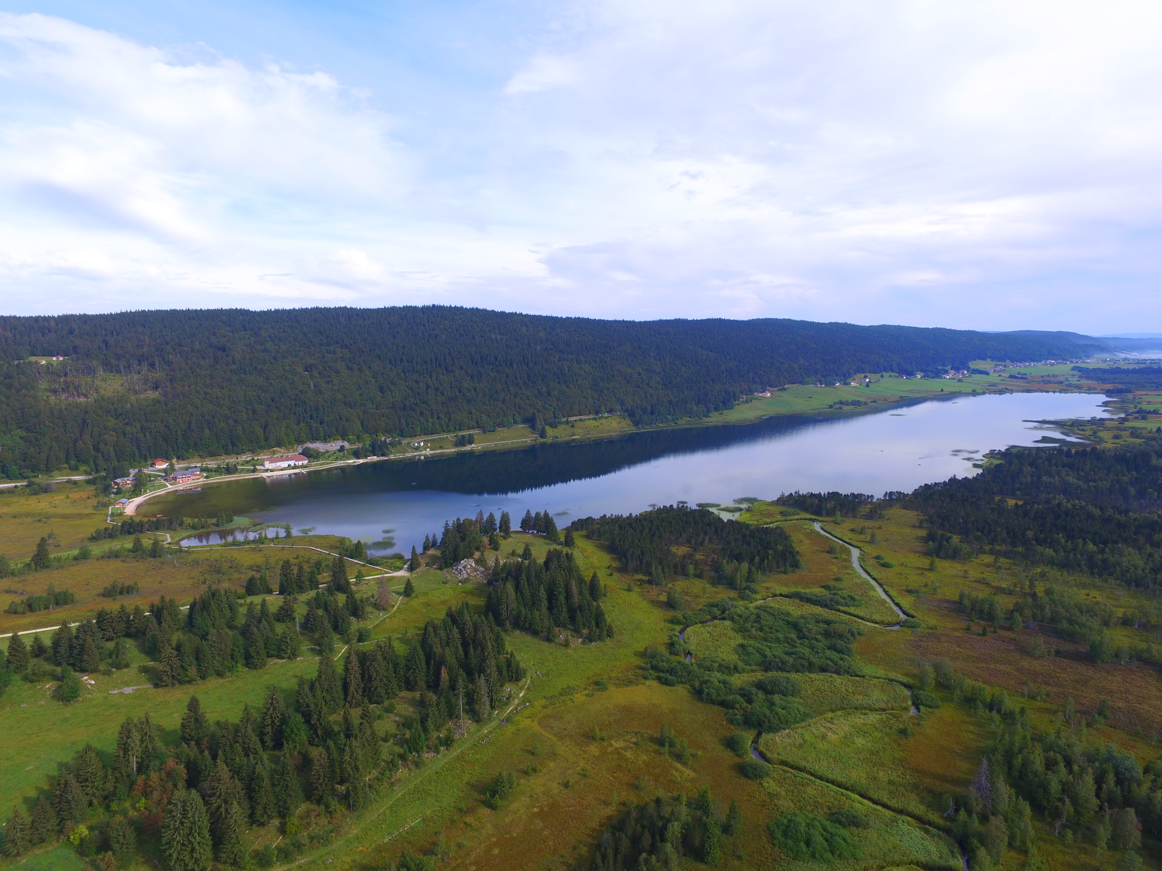 Lac des Rousses, aerial view